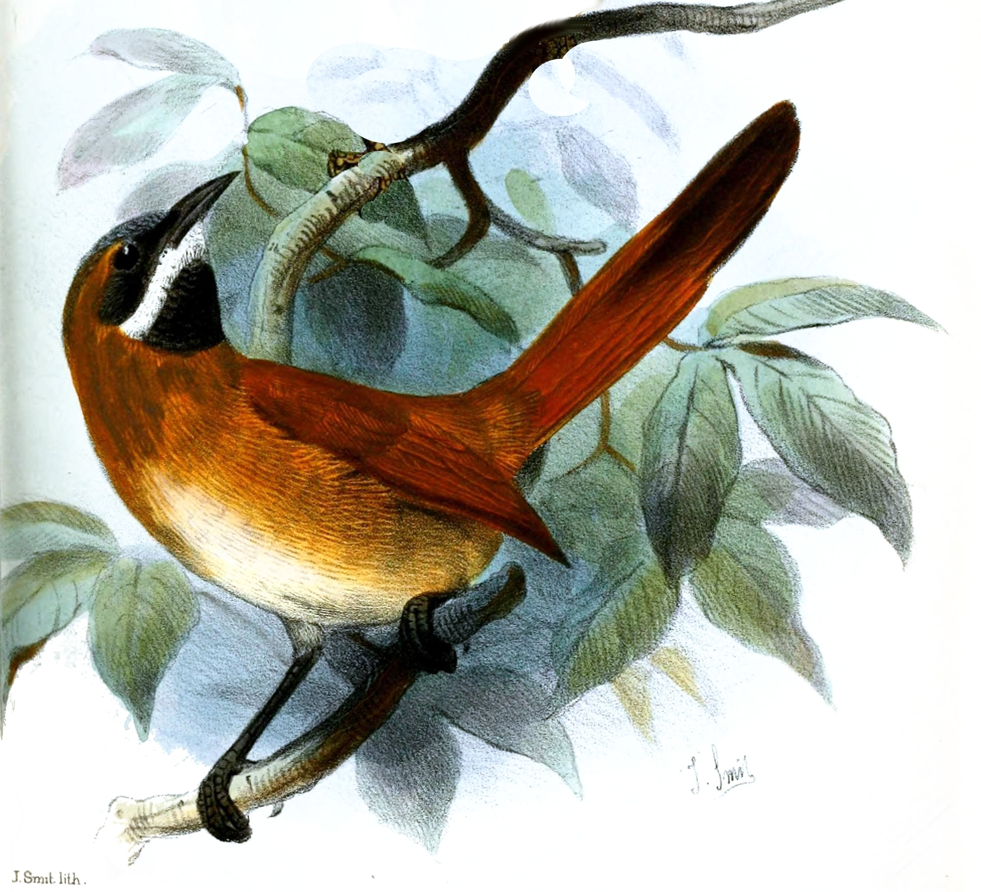 Synallaxis candaei